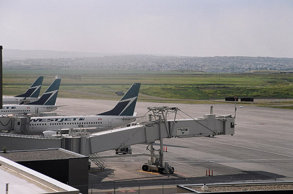 The north part of Concourse D in the Calgary International Airport.